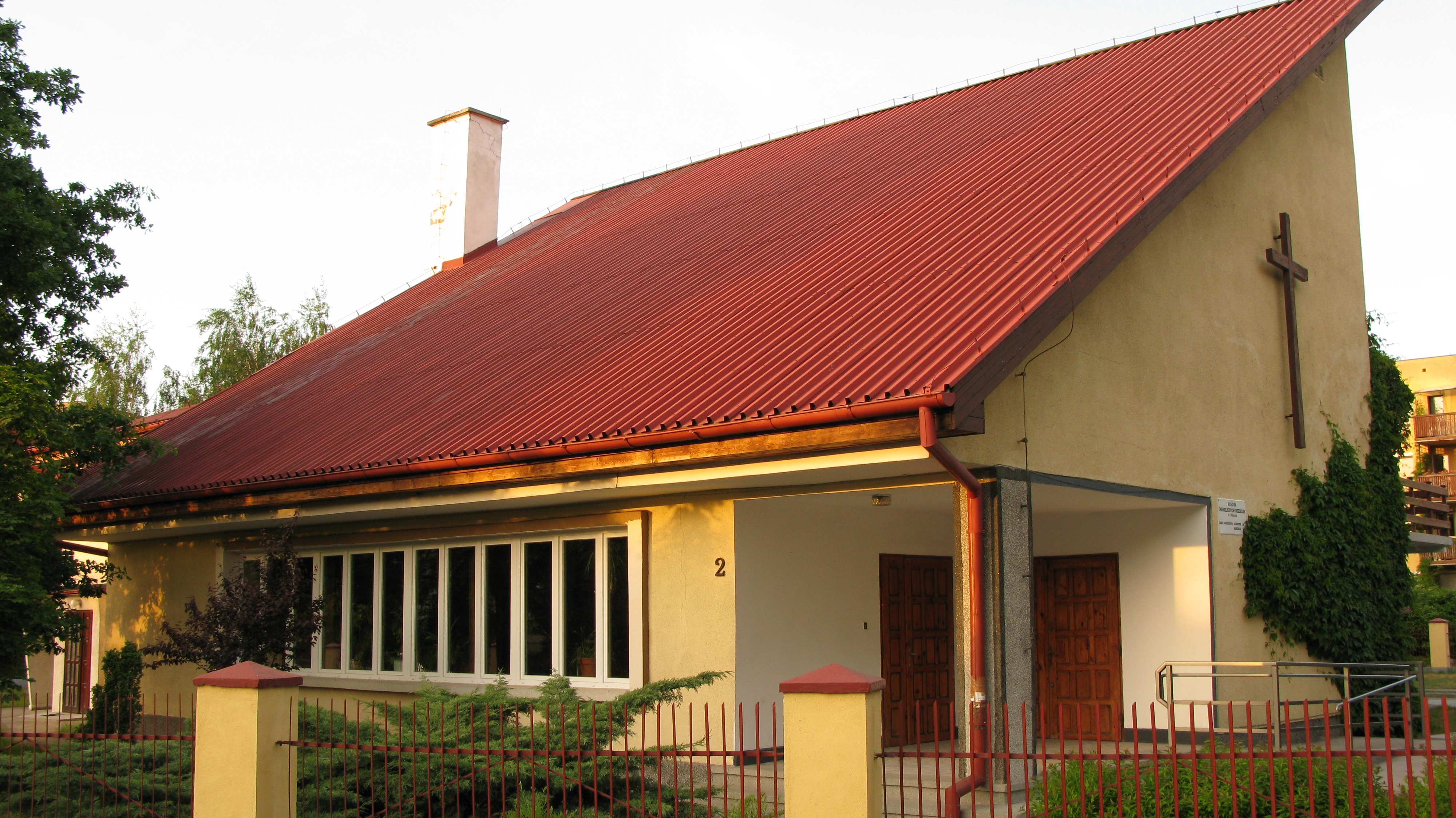 Chapel of the Evangelical Christians' Church in Torun, Poland